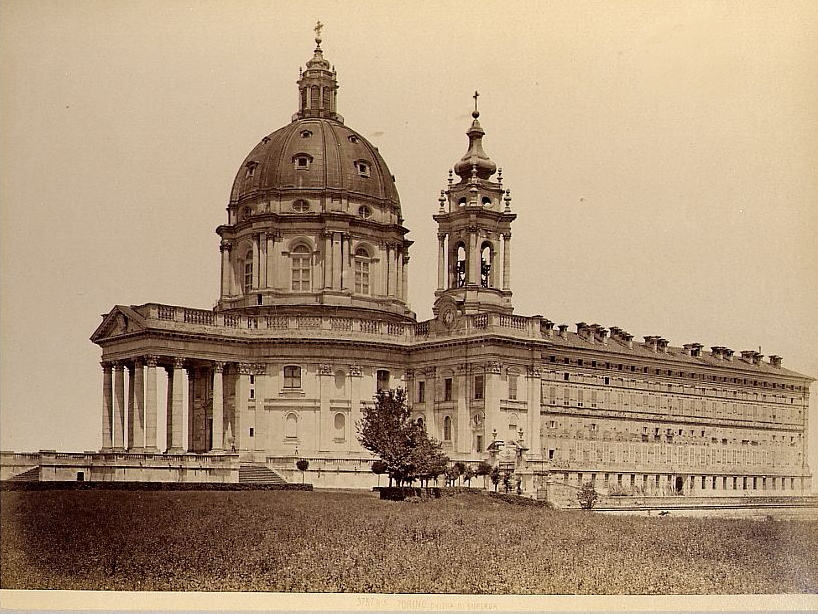 Giacomo Brogi (1822-1881) - "Turin - Basilica of Superga". Catalogue # 3757.